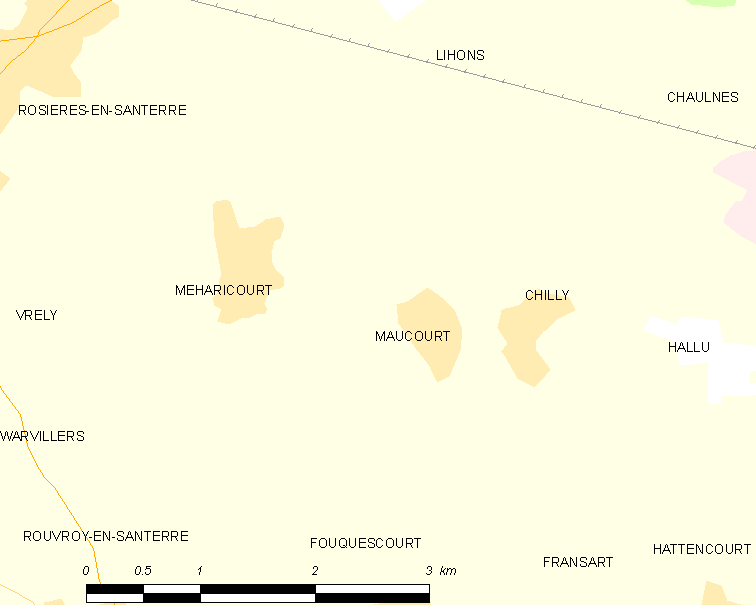 Map of French municipality Maucourt